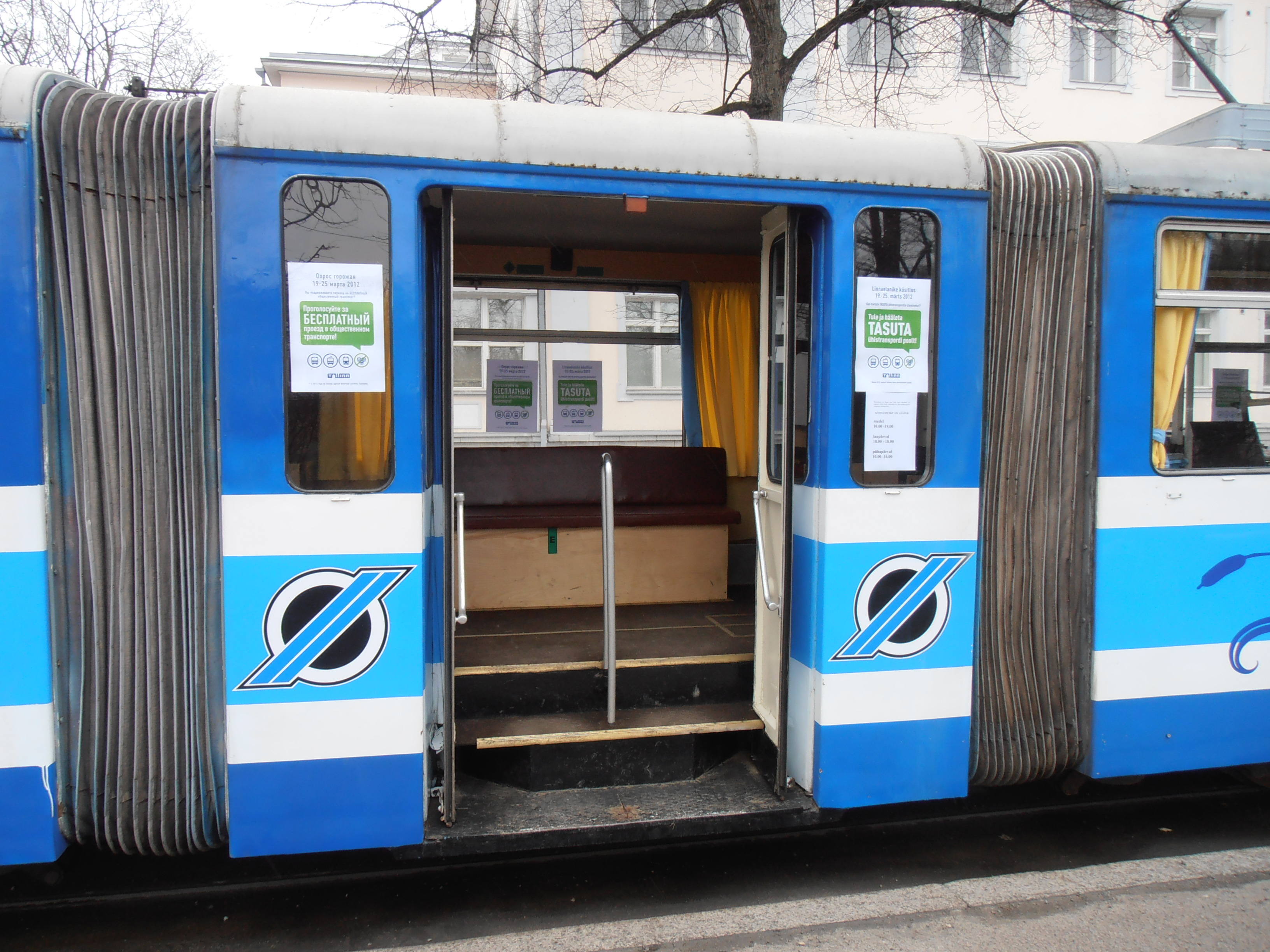 Public transport (buses, trolleys and trams) in Tallinn will be free of charge for its residents